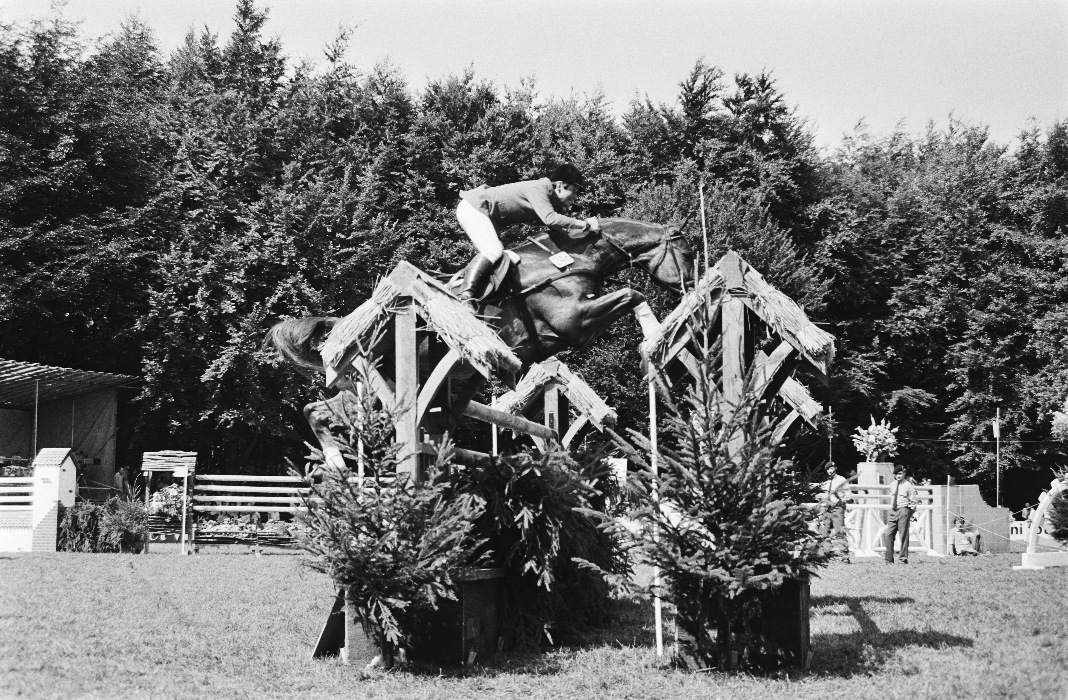 Depicted person: Hugo Simon – equestrian